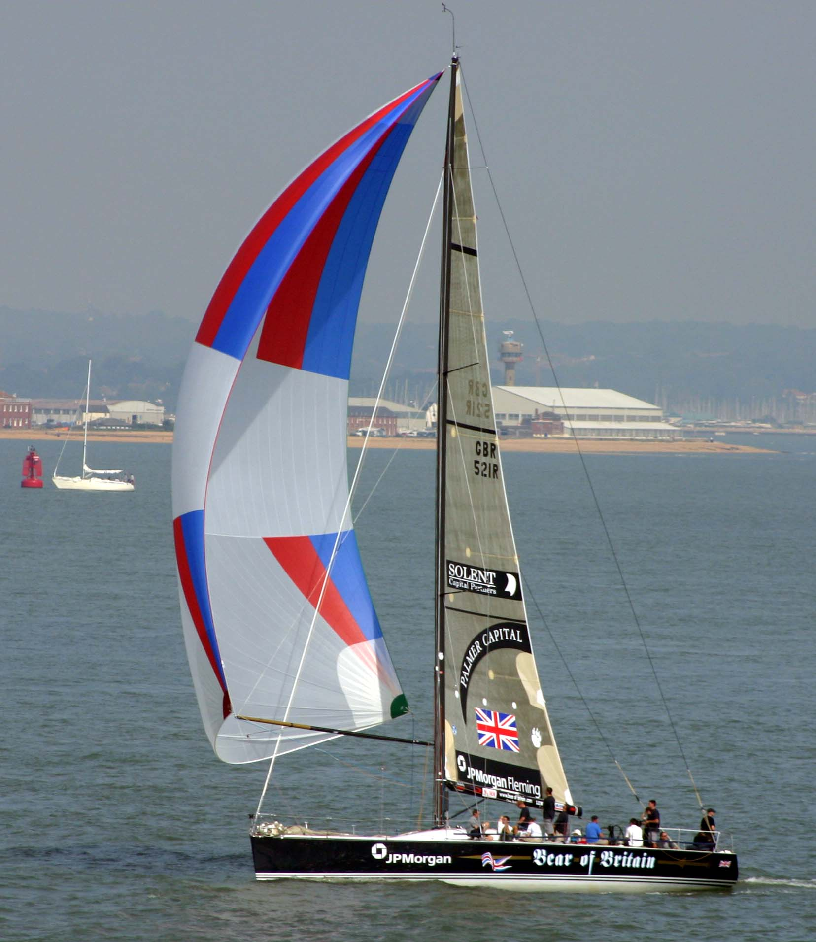 Bear of Britain with spinnaker up. Taken Sept 2004 with Calshot Spit behind.